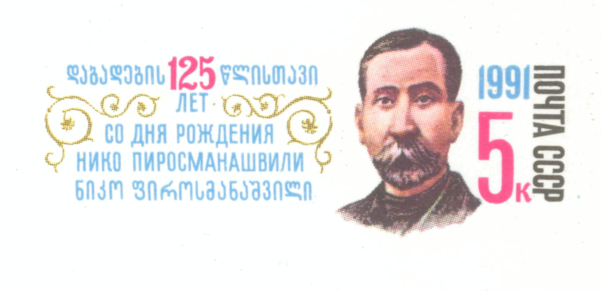 Soviet preprinted (original) stamp of 5 kopeks, (1991). 125th anniversary of Niko Pirosmanashvili's birthday, (1862-1918), georgian artist. Design of A. Shmidshtein. Detail of a postcard of the Soviet Union (postal stationery).